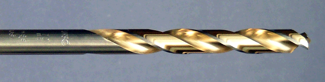 Titanium nitride coated drill, 70 mm, Photographed by Peter Robert Binter, 25.06.2005